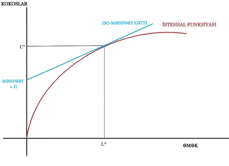 This graph shows the Profit Maximising Condition for the firm in the Robinson Crusoe Economy. The iso-profit line must be tangent to the production function.